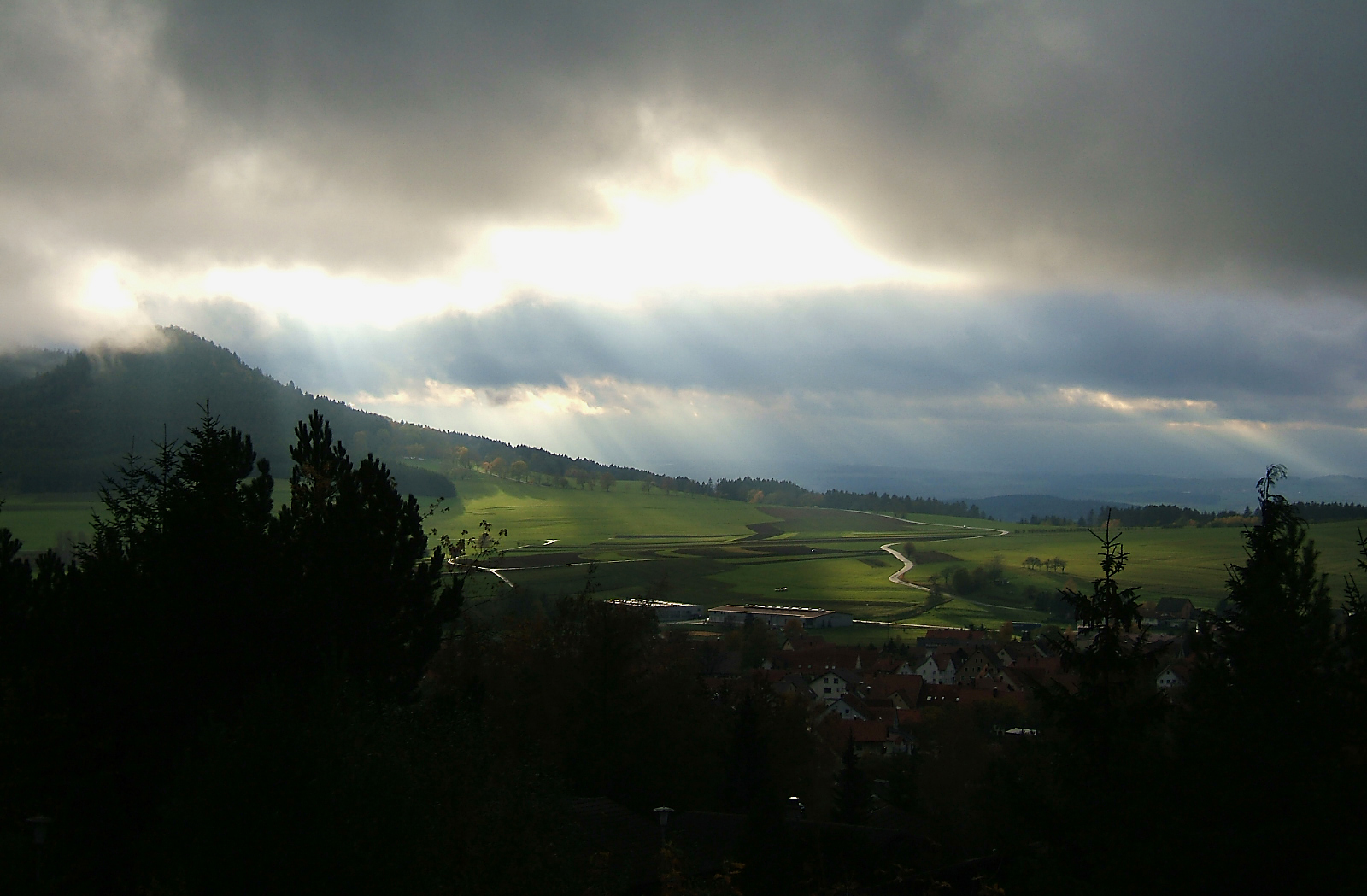 Sunlight and shadows above Deilingen, Germany